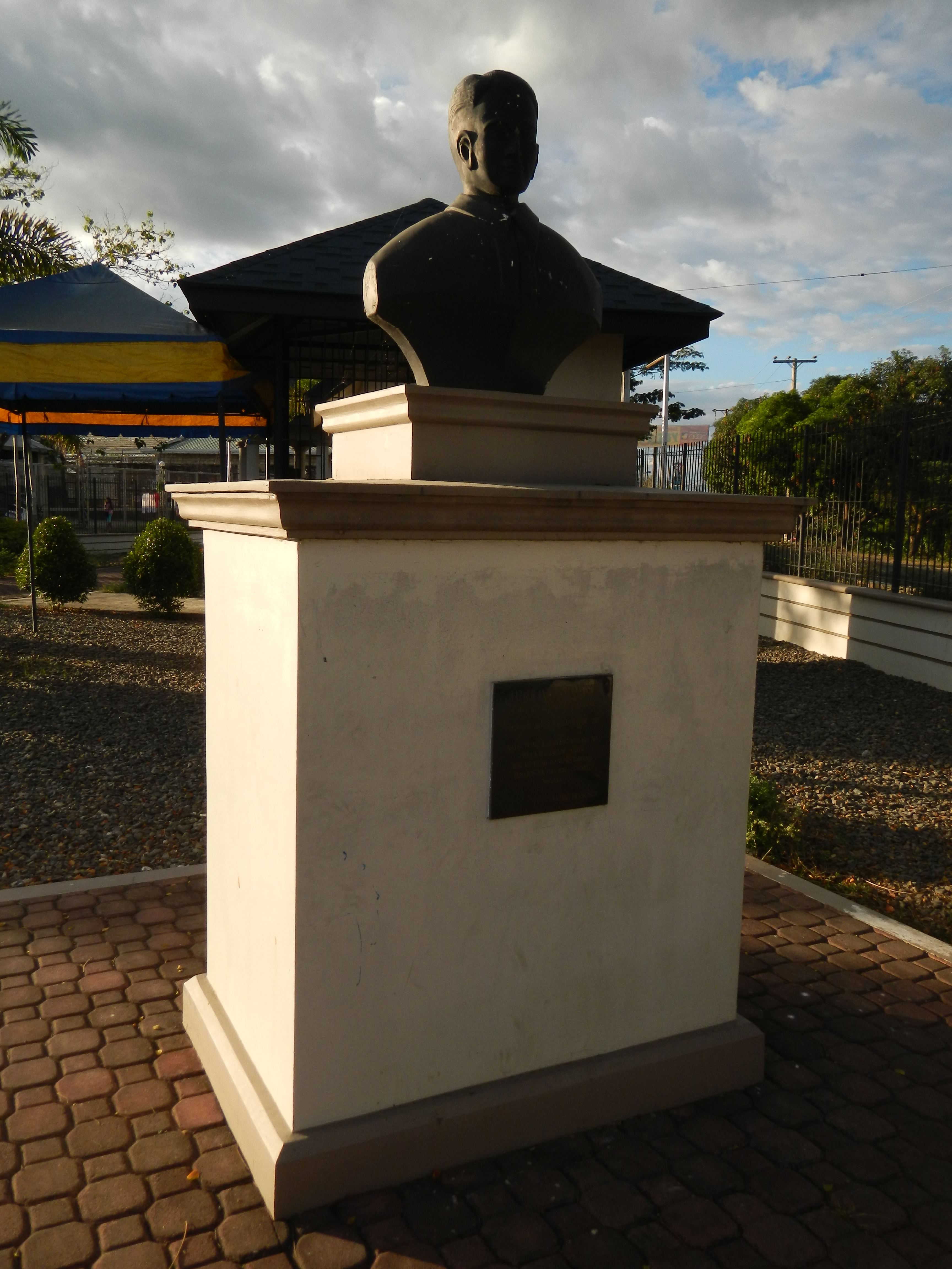 [1] City of Cabanatuan (Filipino: Lungsod ng Kabanatuan) is a highly urbanized city in the province of Nueva Ecija, Philippines.